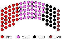 created with: ( javascript / Mozilla ONLY )